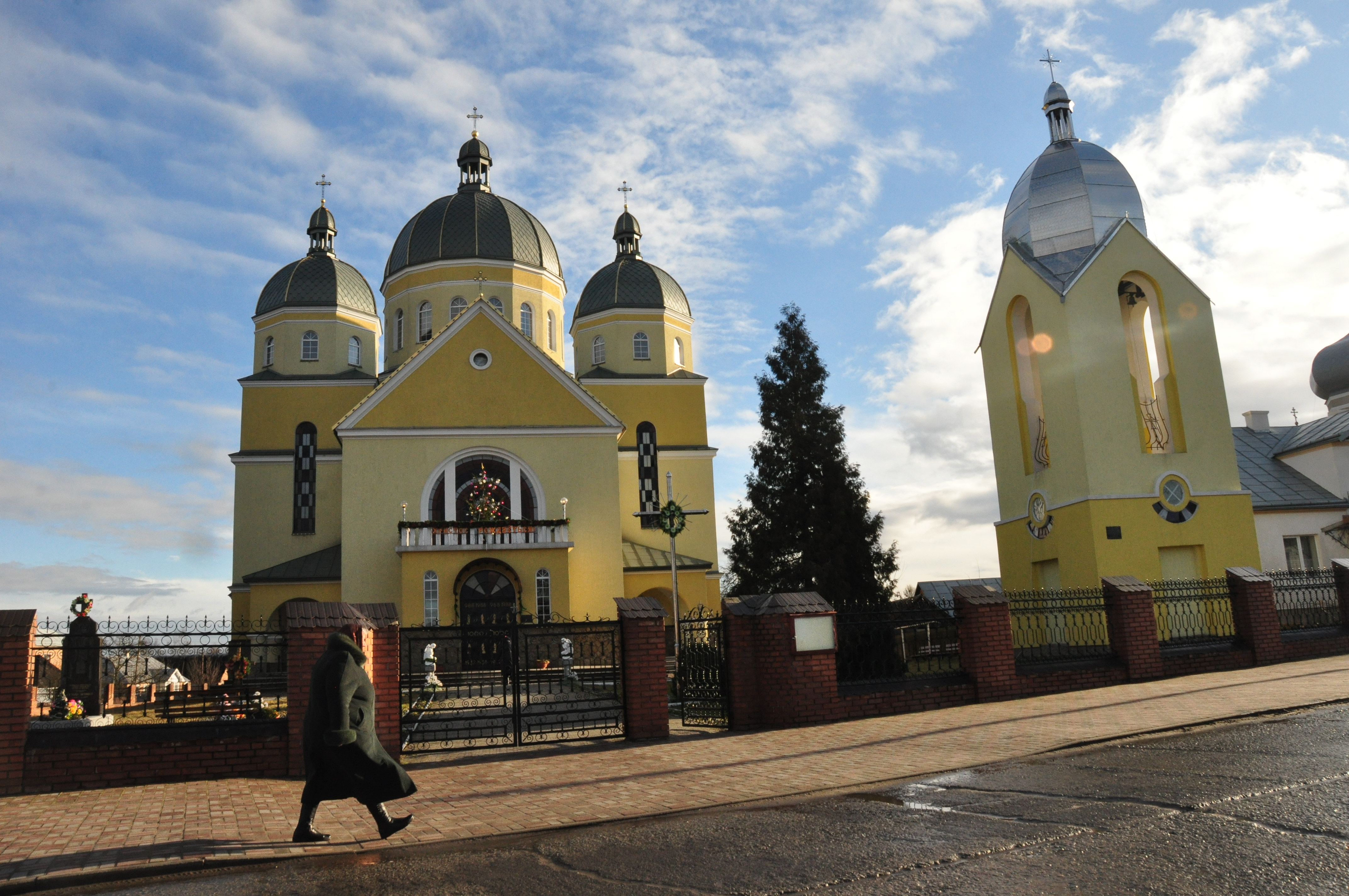 Church of Saint Volodymyr and Olha in Staryj Dobrotvir (UGCC), Kamyanka-Buzka Raion, Lviv Oblast